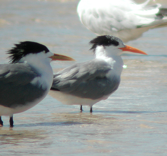 Lesser Crested Tern (Thalasseus bengalensis) Bribie Island, SE Queensland, Australia (Crested Tern Sterna bergii to left)